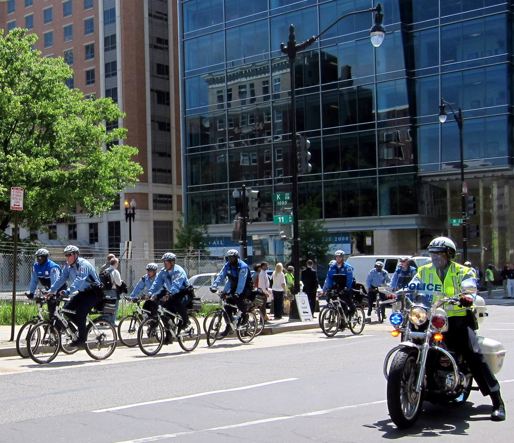 During the 2010 Nuclear Security Summit, officers of the District of Columbia Police Department on patrol near the intersection of 11th and K Streets, N.W., in downtown Washington, D.C.